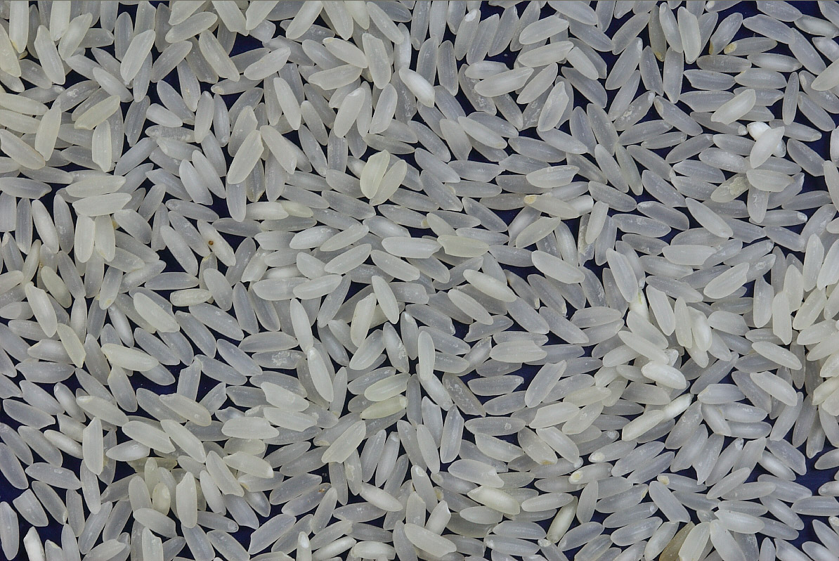 White Rice